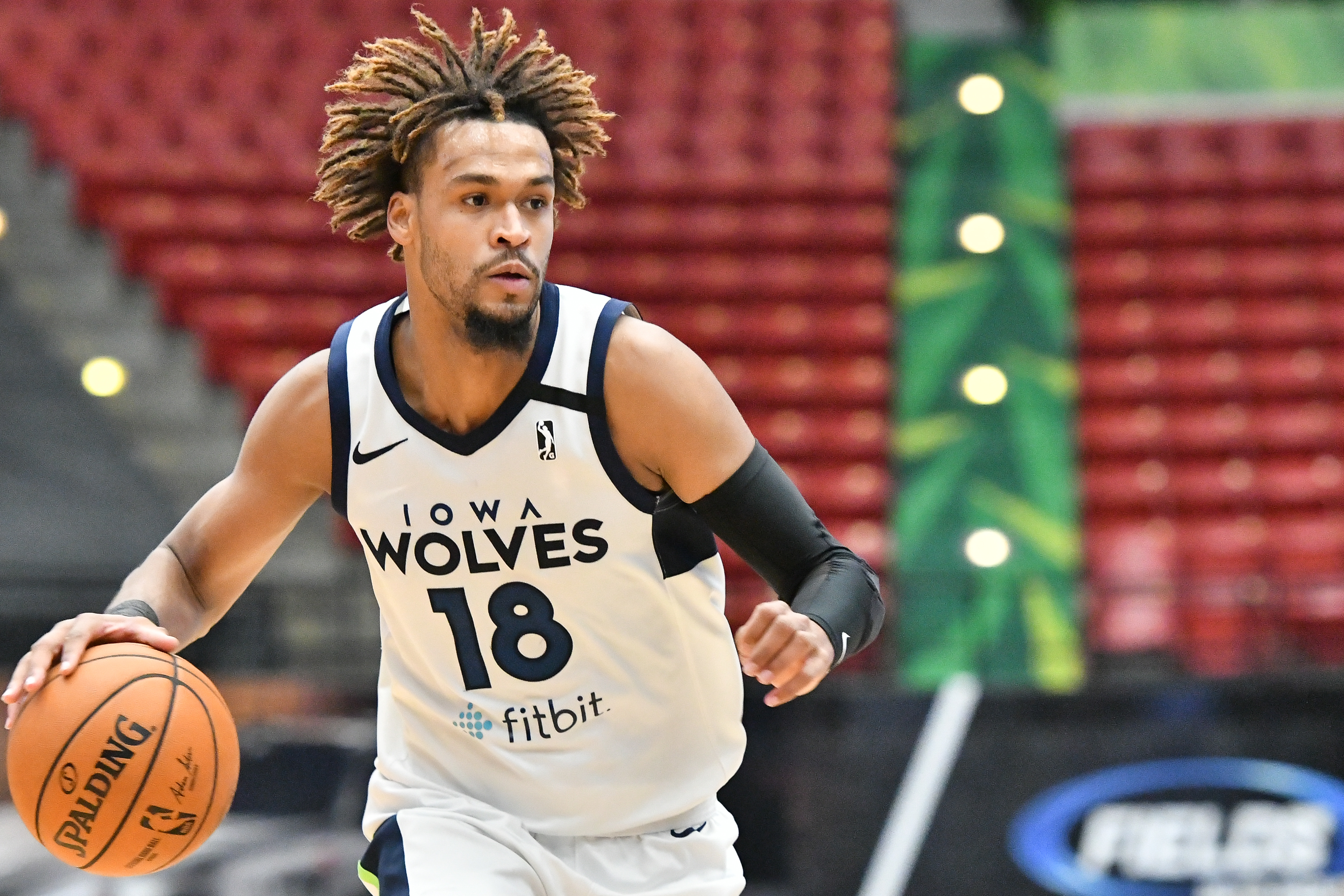 James Webb. Lakeland Magic vs Iowa Wolves. RP Funding Center. Lakeland, Fla. Jan. 18, 2020. (Photo by Tom Hagerty.)